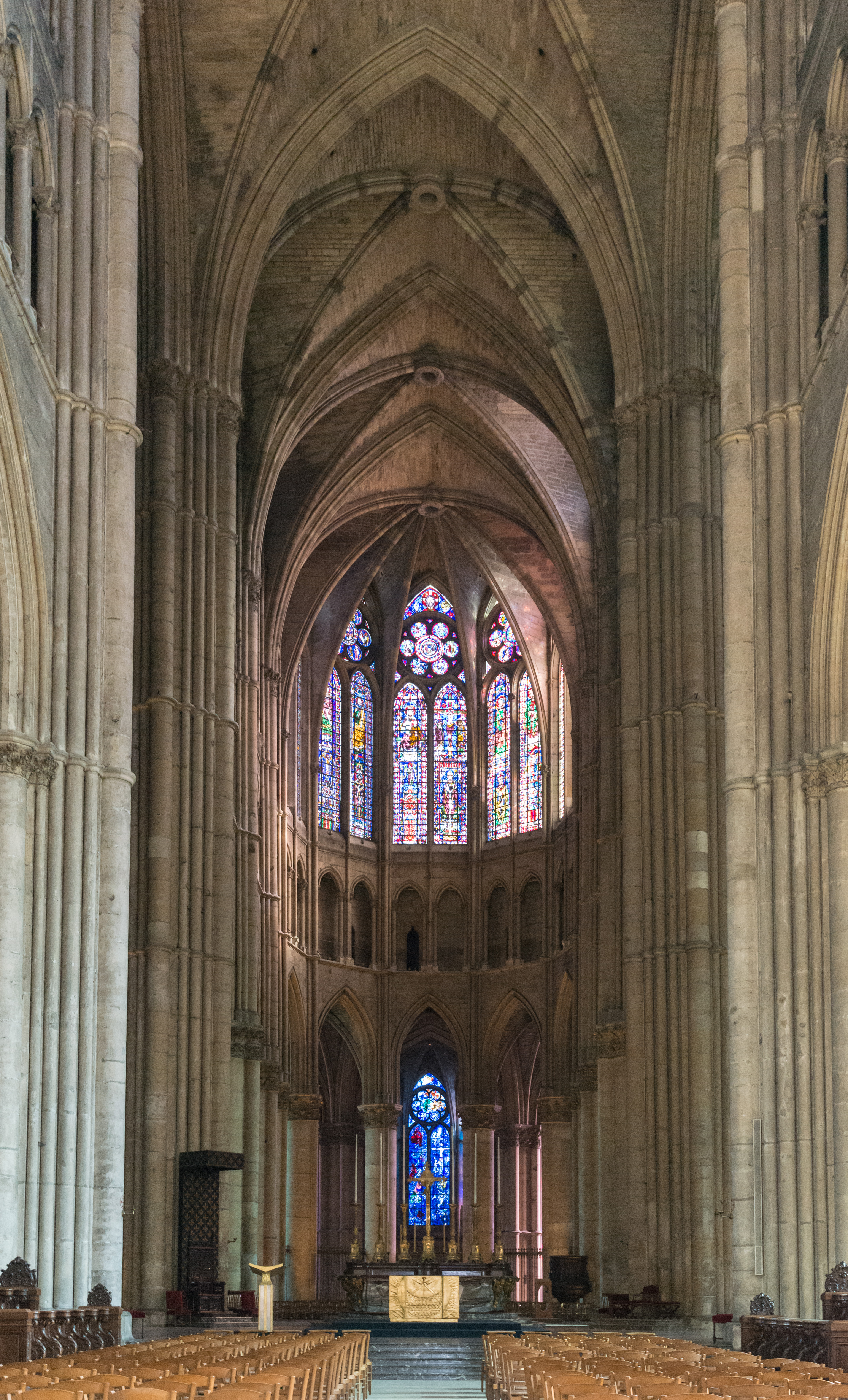 The choir of Reims Cathedral, the seat of the Archdiocese of Reims. The church was the traditional location of the crowning of the French kings.